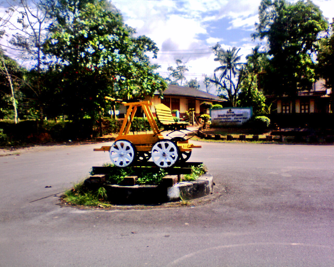 Huai Yot railway station